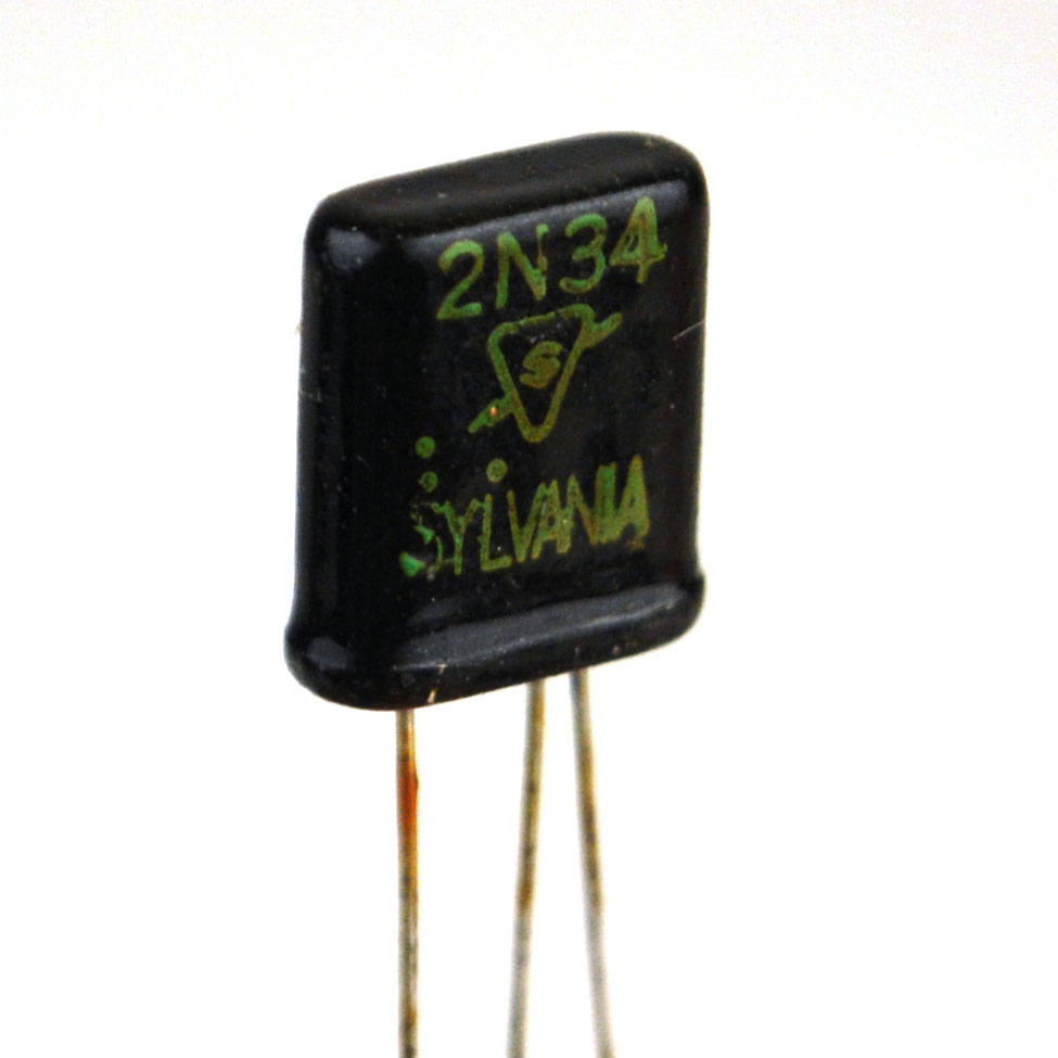 The 2N34 is a PNP Germanium Alloy Junction Transistor developed by RCA around 1953. This Sylvania version came in a metal case and was advertised as "Hermetically Sealed".